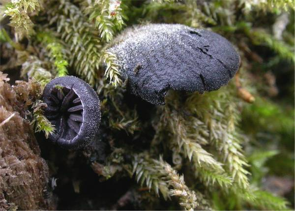 Resupinatus applicatus, of the mushroom family Tricholomataceae. Specimen photographed in Union City, Alameda Co., California, USA.